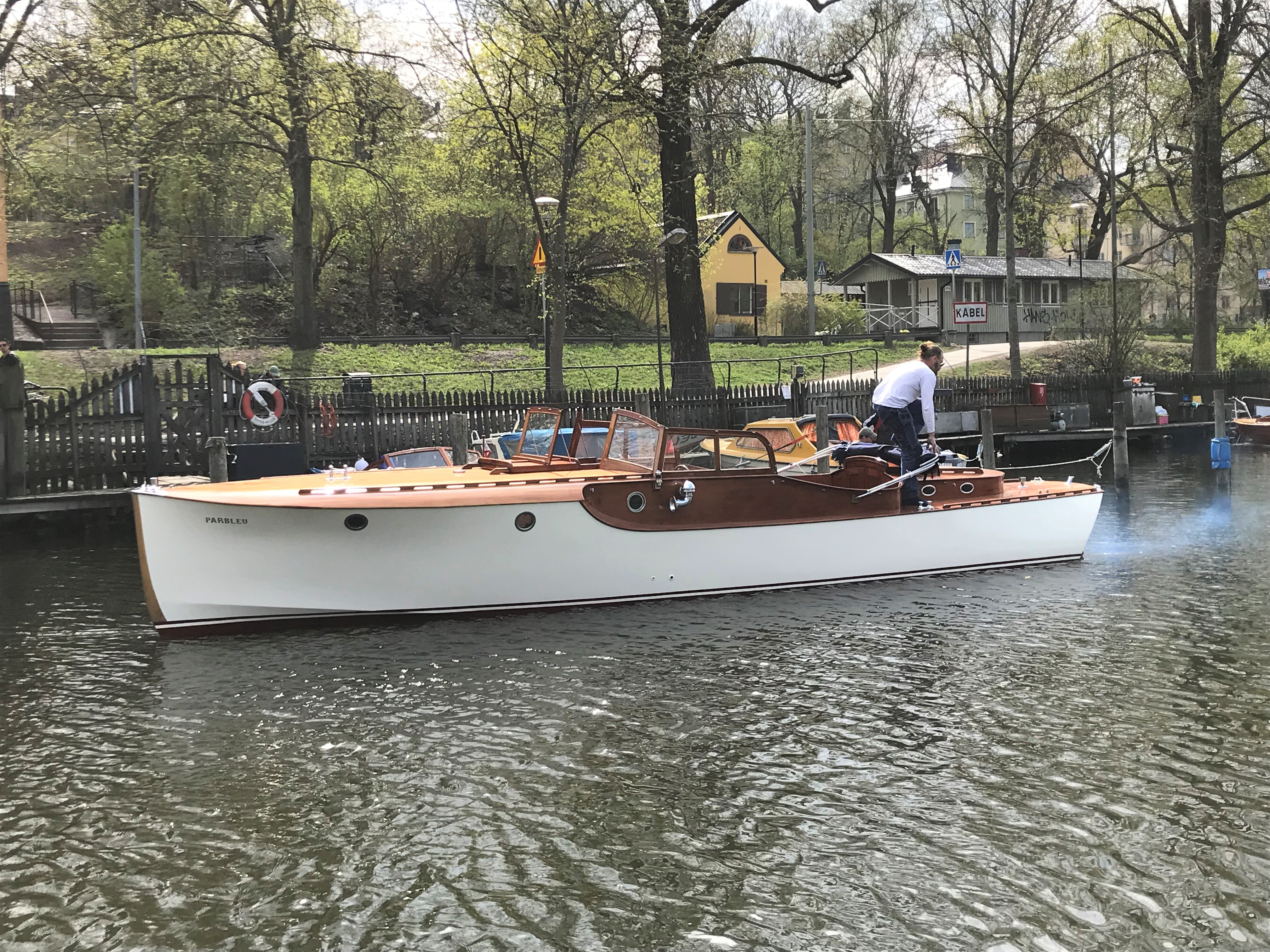 M/Y Parbleu from 1932 designed by C G Pettersson in Pålsundet in Stockgholm, April 27, 2019